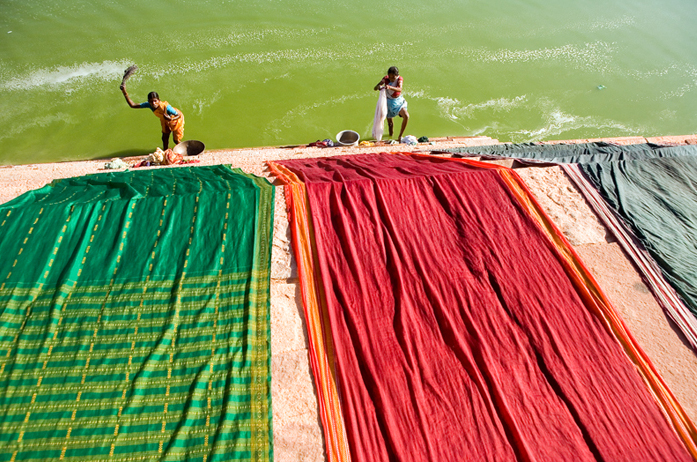 Two women doing their laundry in the sacred tank in Badami, India. Saris are drying on the stairs.